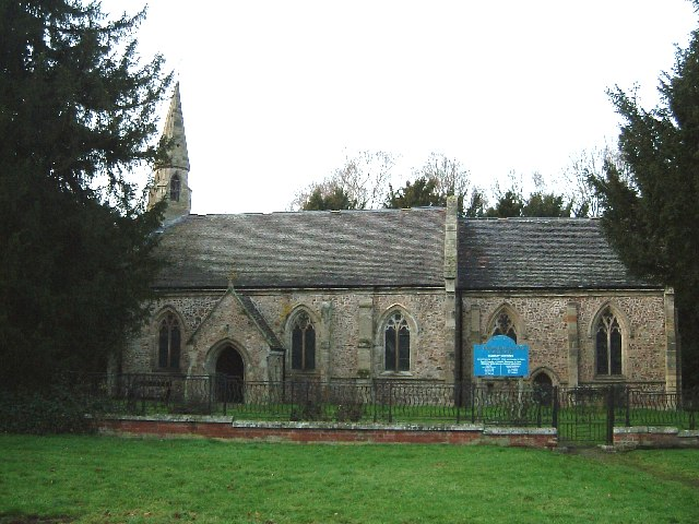 Parish church of SS Theobald and Chad, Caldecote, Warwickshire, seen from south-southeast